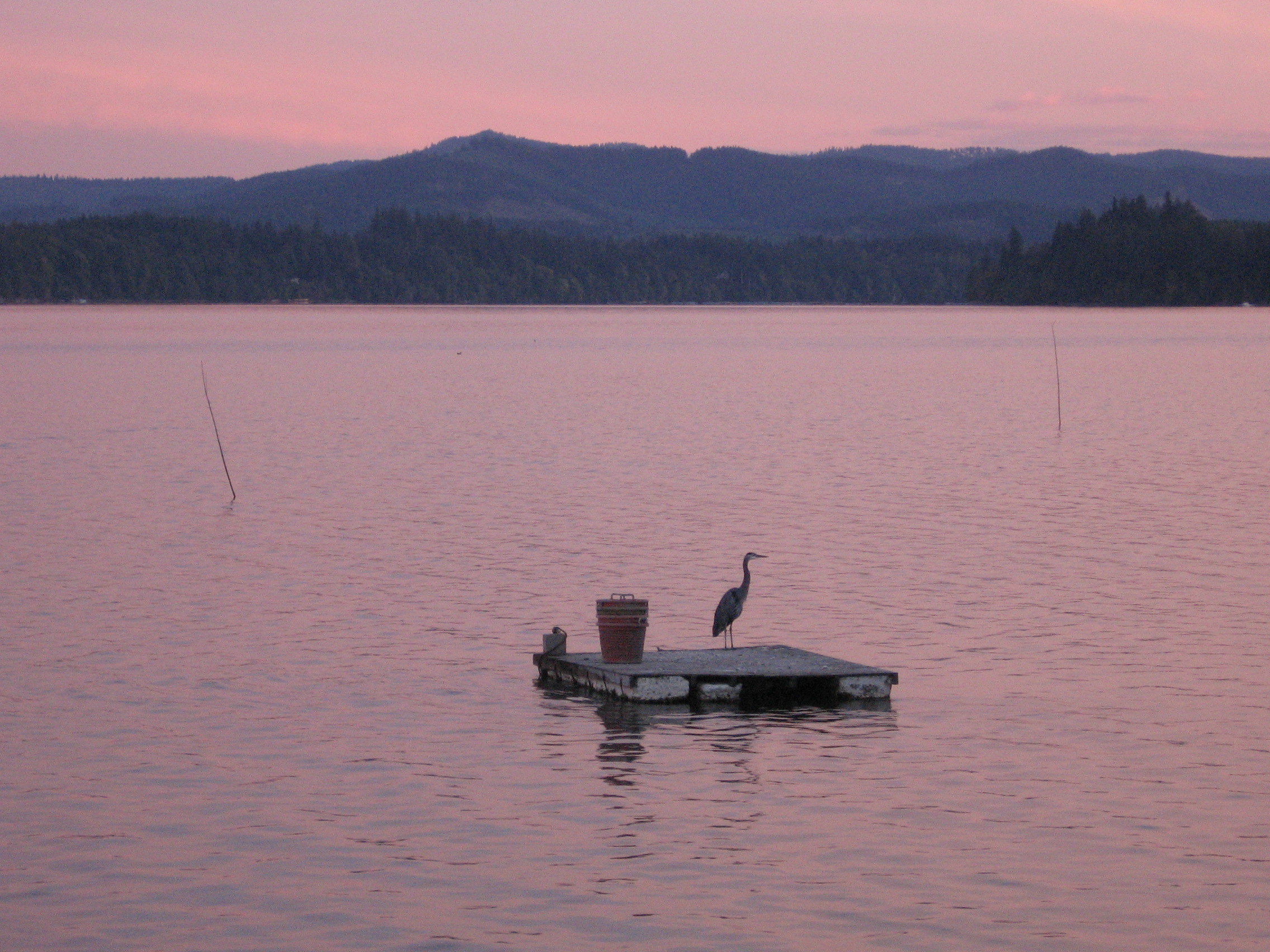 A great blue heron rests on an osyter raft in Totten Inlet. Mason County, Washington.